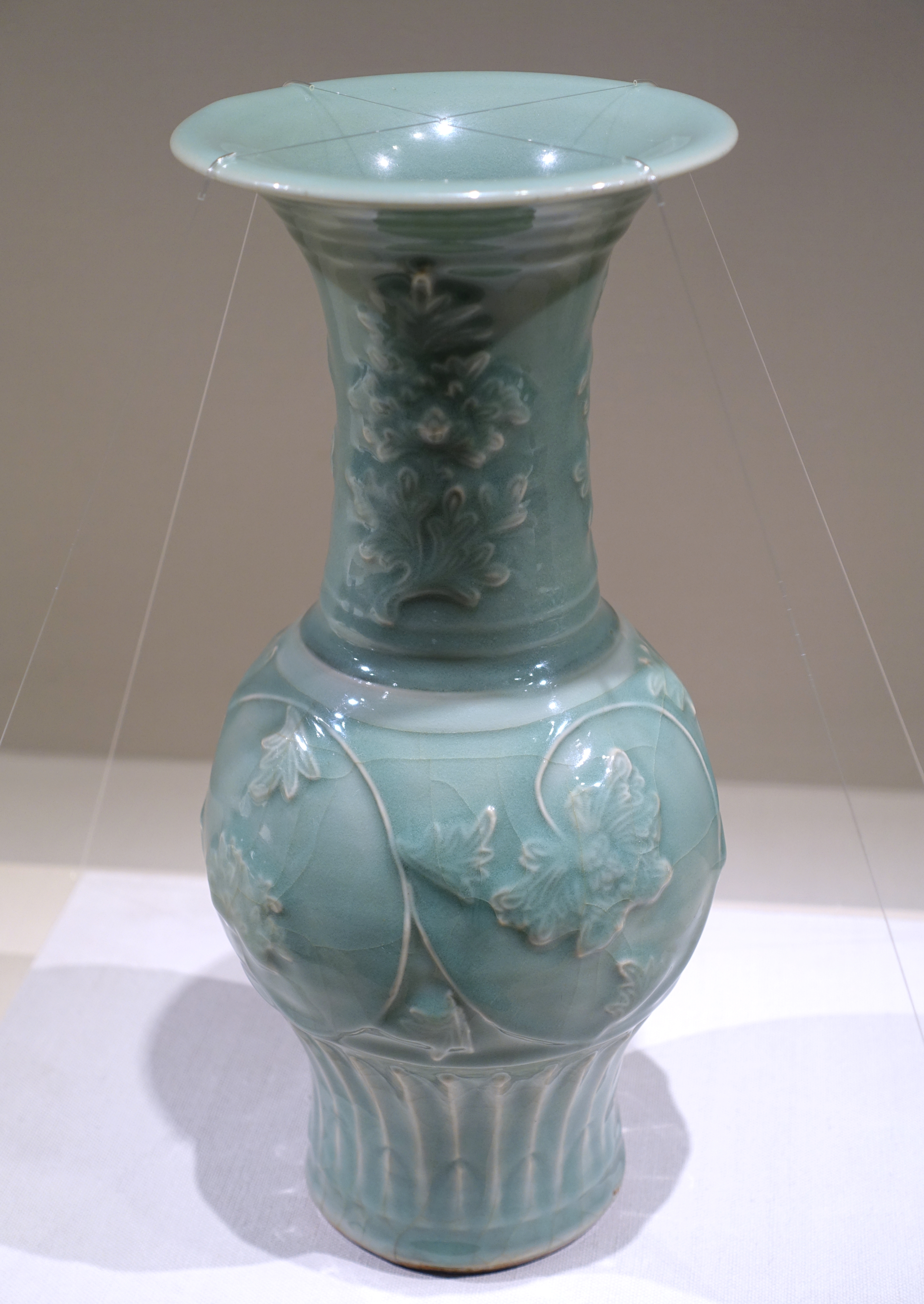 Exhibit in the Matsuoka Museum of Art - 5 Chome-12-6 Shirokanedai, Minato, Tokyo 108-0071, Japan.